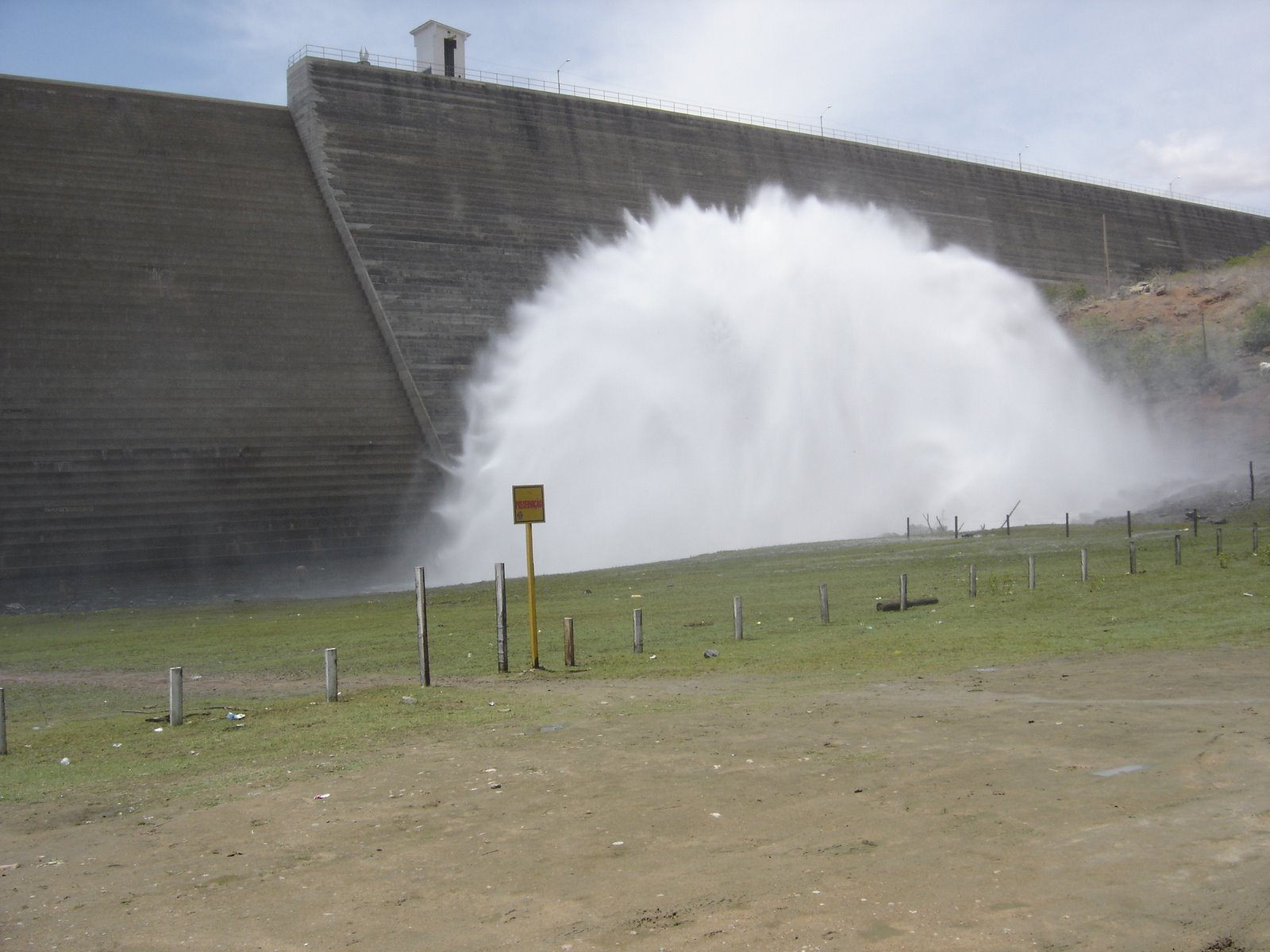 Dam of Santa Cruz is located in the city of Apodi, state of Rio Grande do Norte, Brazil. It is capable of storing 559 million cubic meters.